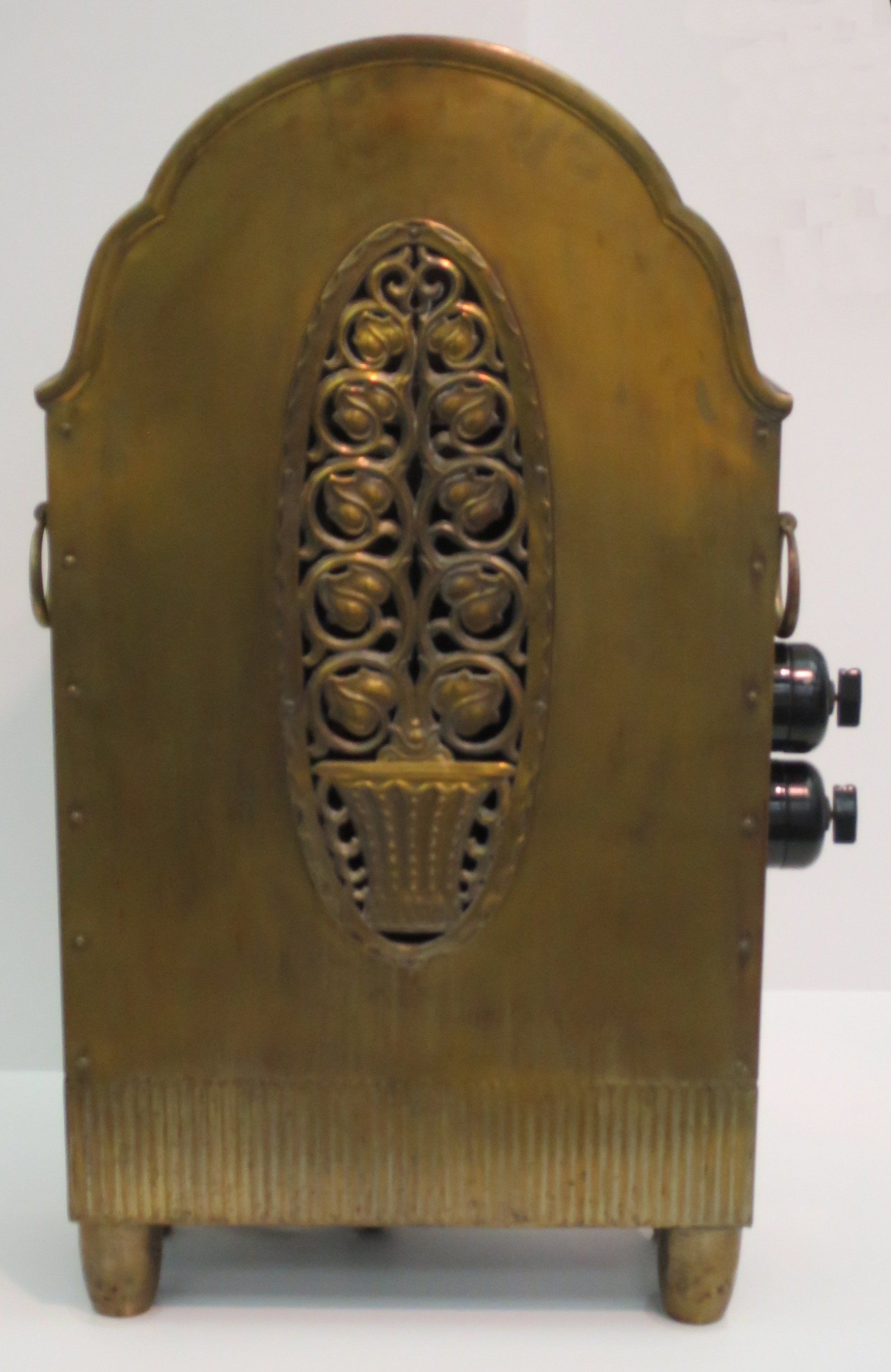 Heater, c. 1912, attributed to Werkstätten Bernhard Stadler, Paderborn, Germany, brass, plastic and fiber, Wolfsonian-FIU Museum